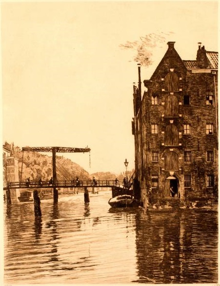 'Uilenburg II' (Amsterdam) Dit is een gezicht van de Rapenburgwal naar de brug tussen Rapenburg en Uilenburg en het pakhuis op de hoek Uilenburgwal en Rapenburgwal dat aan de voorkant "Sweeden" heet (c.1911) r.o. in potlood get.